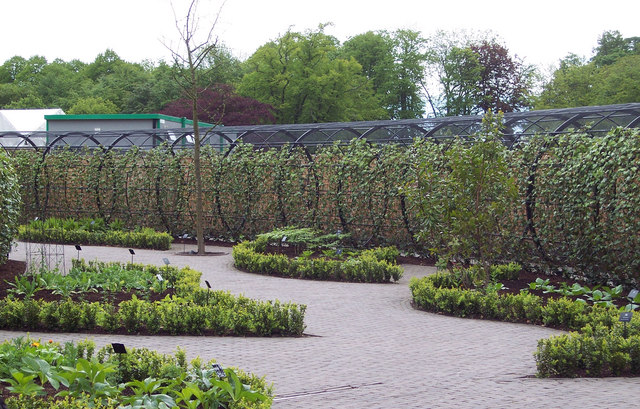 The Poisons Garden, Alnwick All the plants can kill!